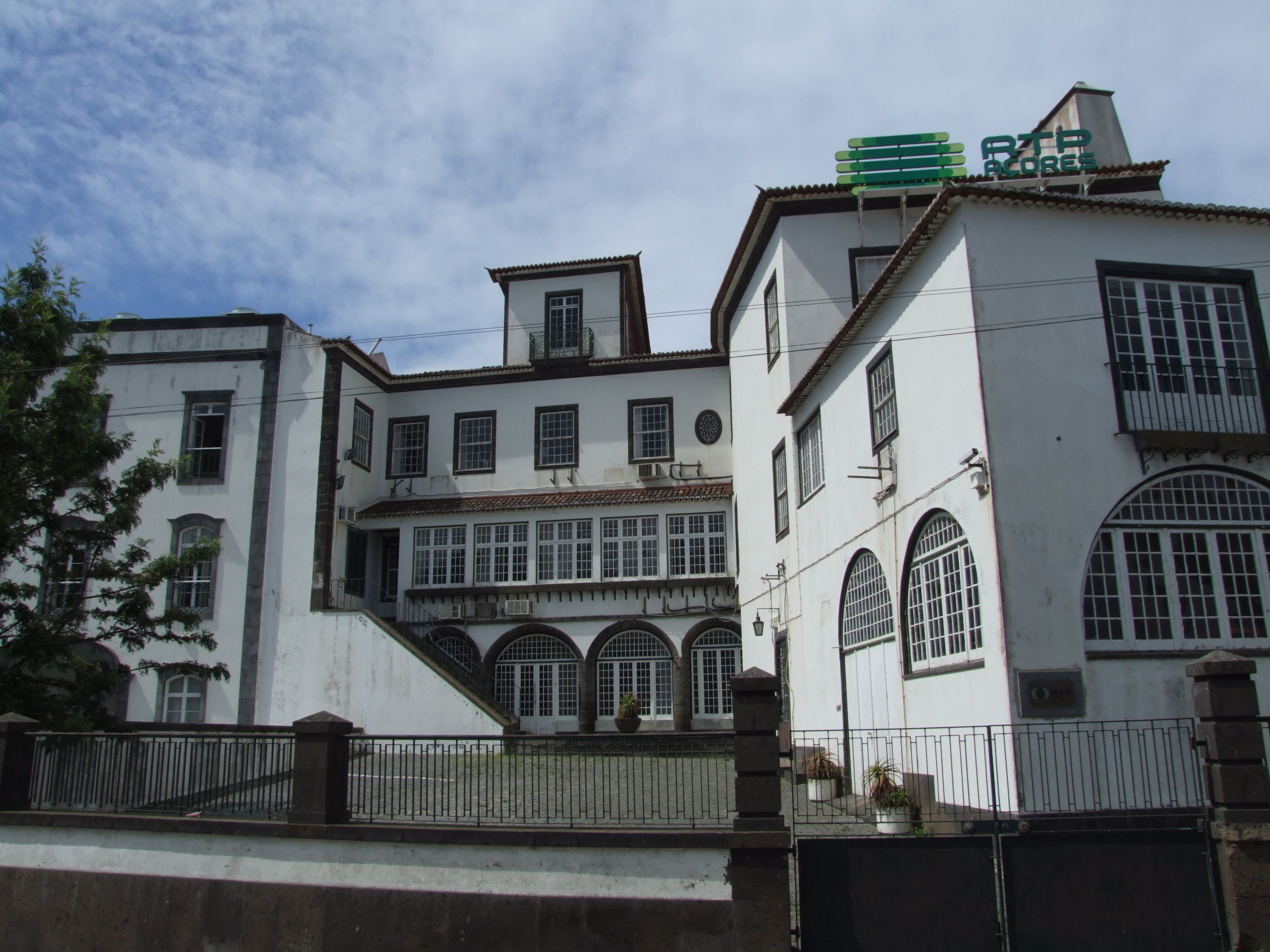 Ponta Delgada, Sao-Miguel, Azores, Portugal